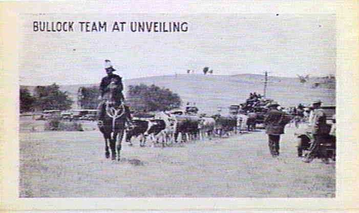 Bullock team at the unveiling of the Dog on the Tuckerbox monument nearGundagai, New South Wales